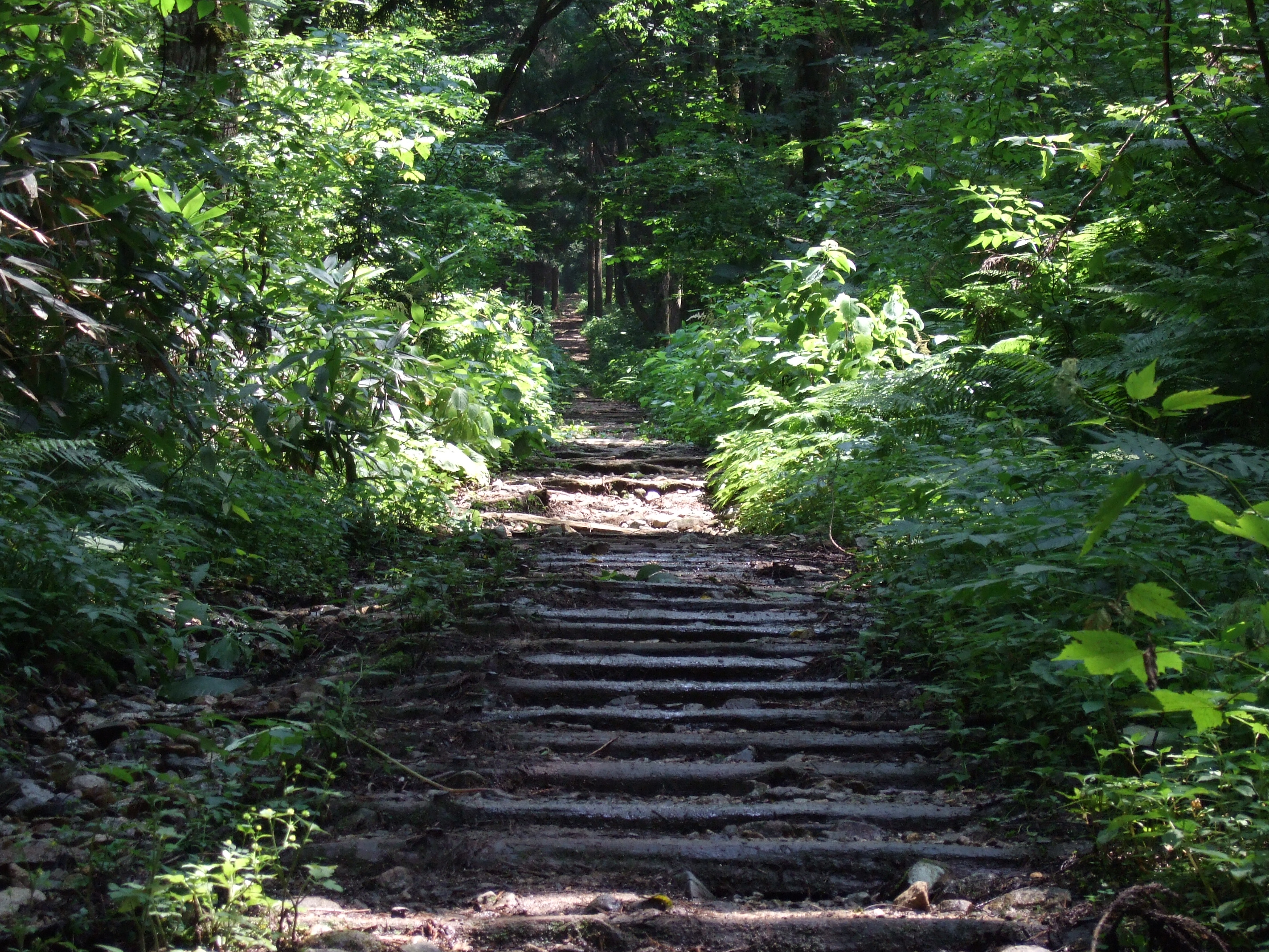 the trace of abolished incline railway, now used for trail of Taiheizan, the mountain in Akita, Akita, Japan.